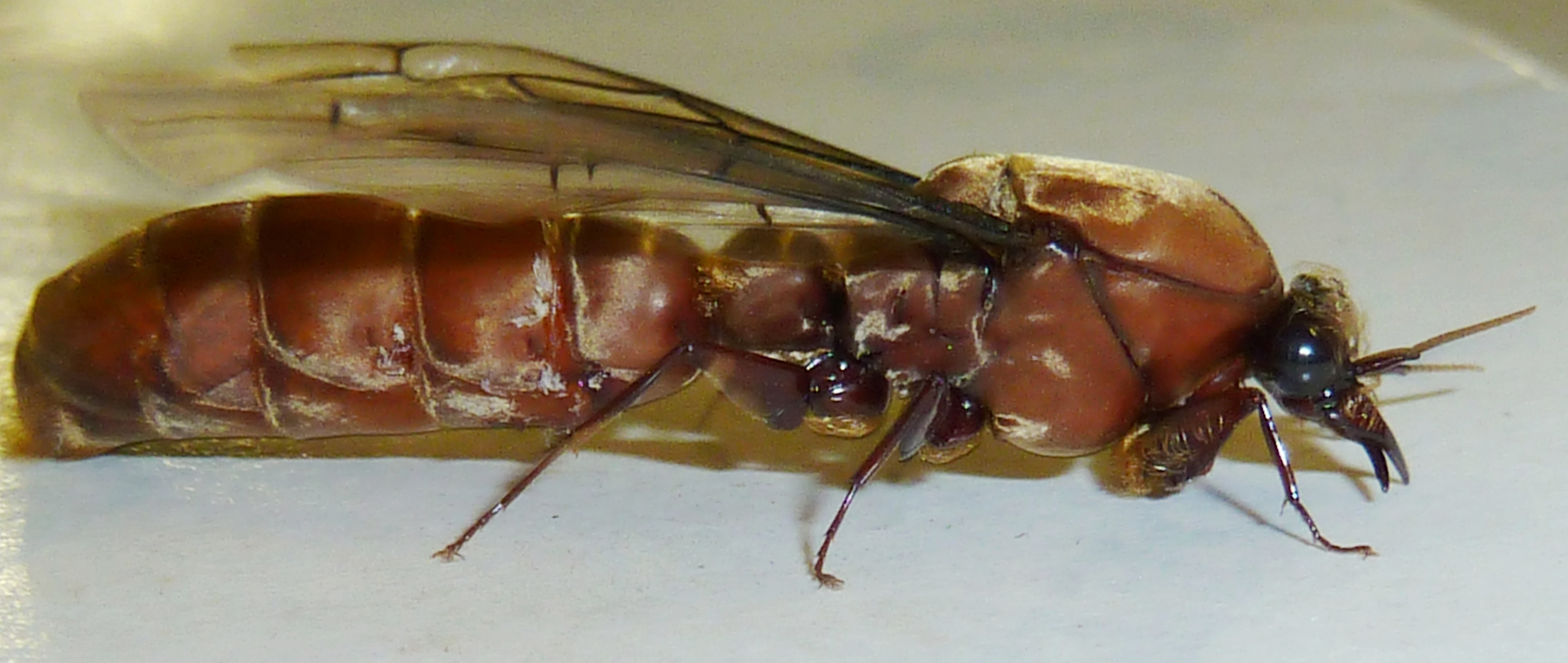 Driver ant of the male caste at Seringveld near Pretoria